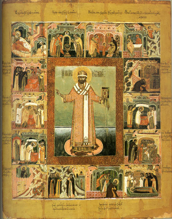 St Phillip's icon with life